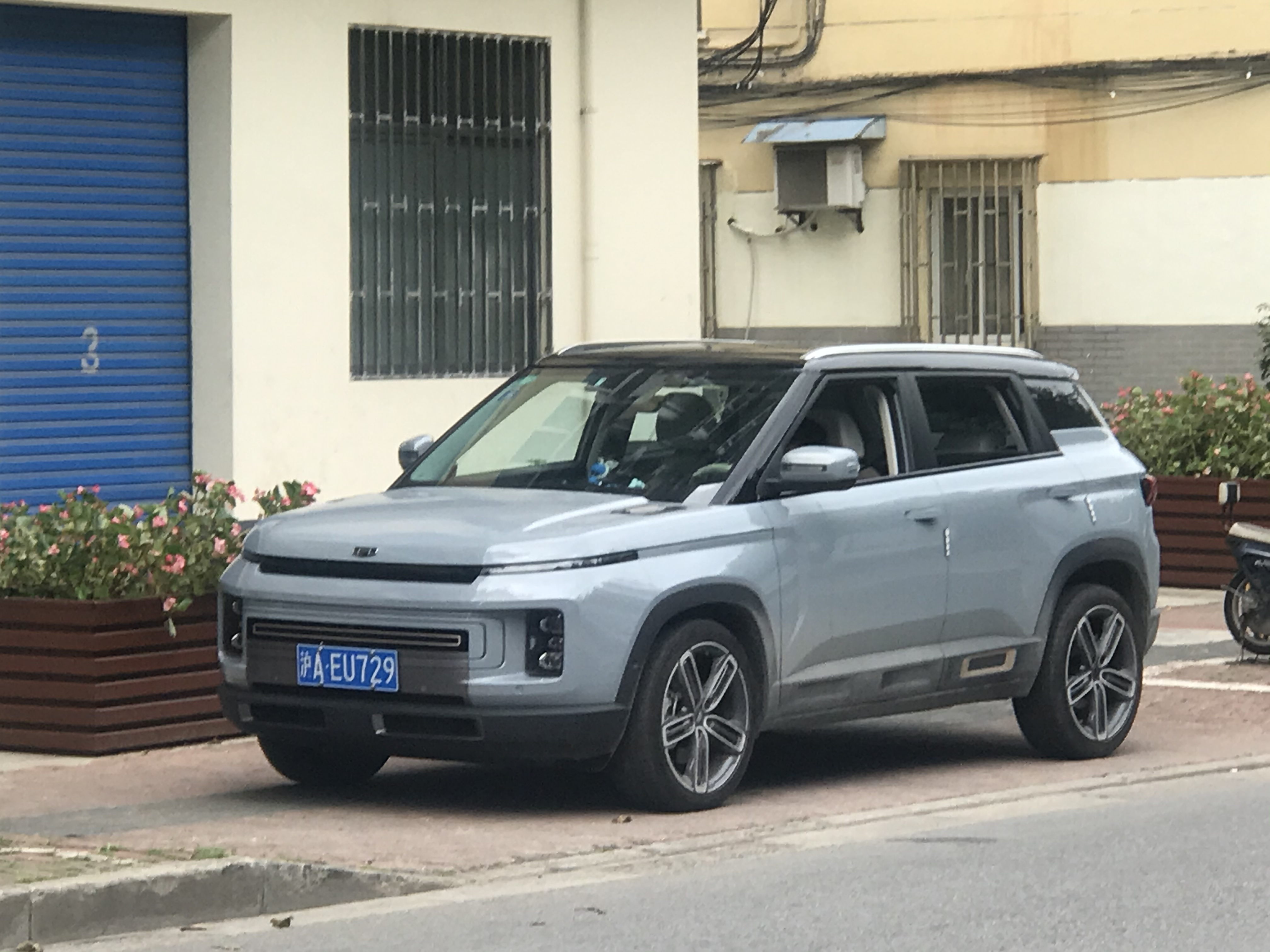 Geely Icon